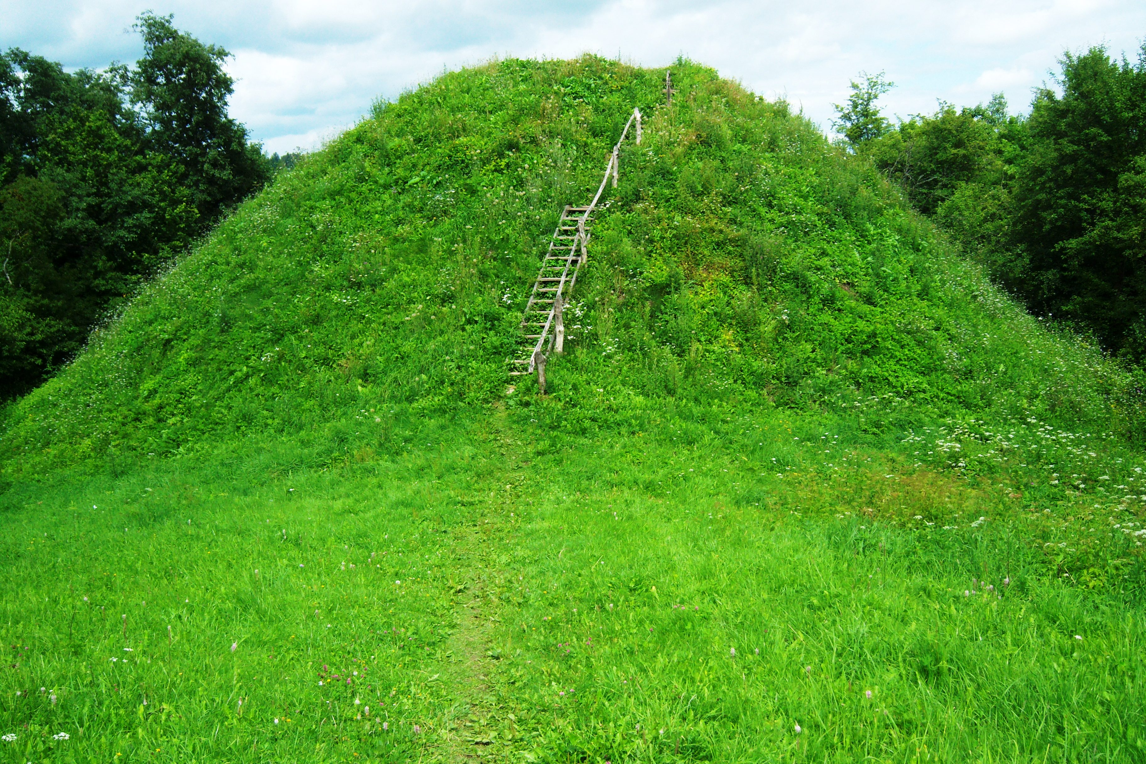 Pypliai hillfort, near Kačerginė, Kaunas district, Lithuania